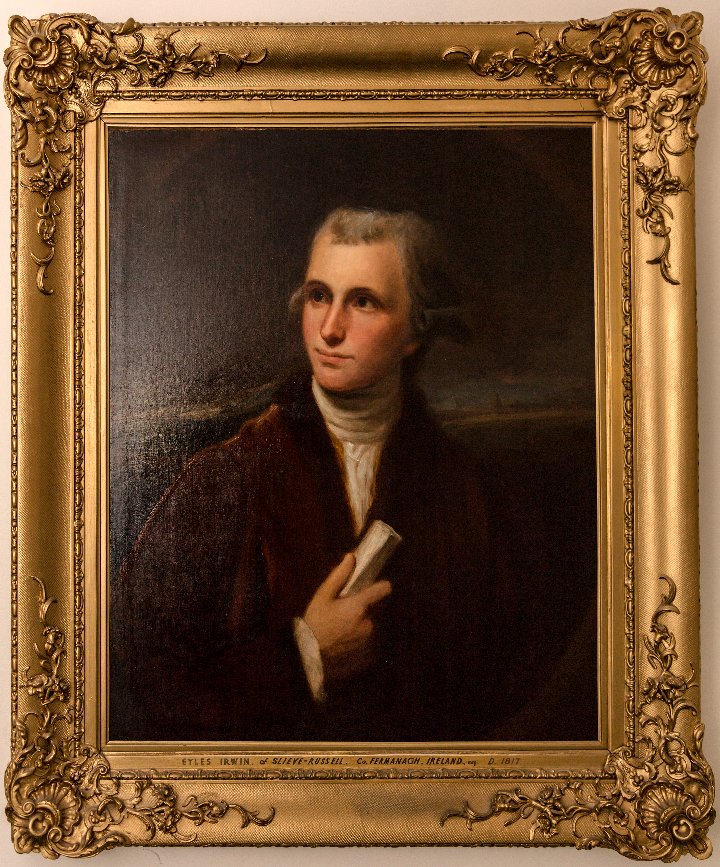 Photo by Contributor. Original bequeathed within family. Held by Great-Great-Great-Great Grandson in Vancouver, BC, Canada. Painted, according to Grosvenor Prints, by George Romney. Prints within Irwins Voyages books (eg 2nd Ed) were from plates engraved by James Walker from this work.